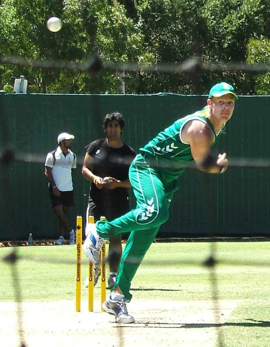 Johan Botha at a training session at the Adelaide Oval